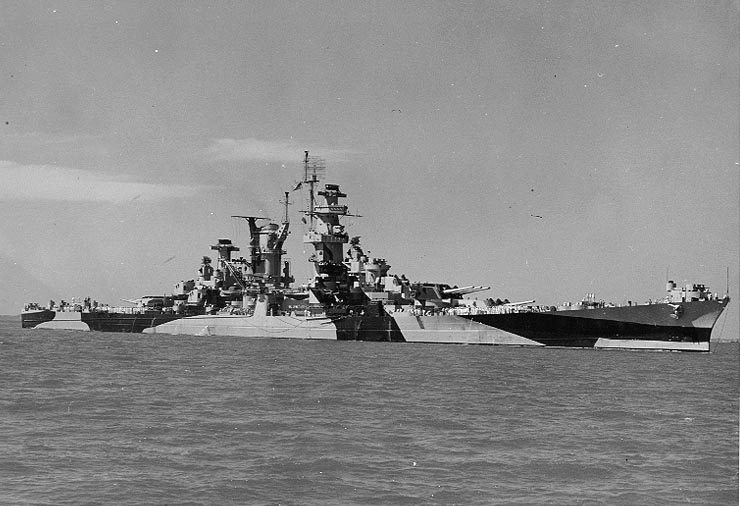 The U.S. Navy large cruiser USS Alaska (CB-1) photographed in the summer or autumn of 1944, probably in the Hampton Roads area, Virginia (USA).